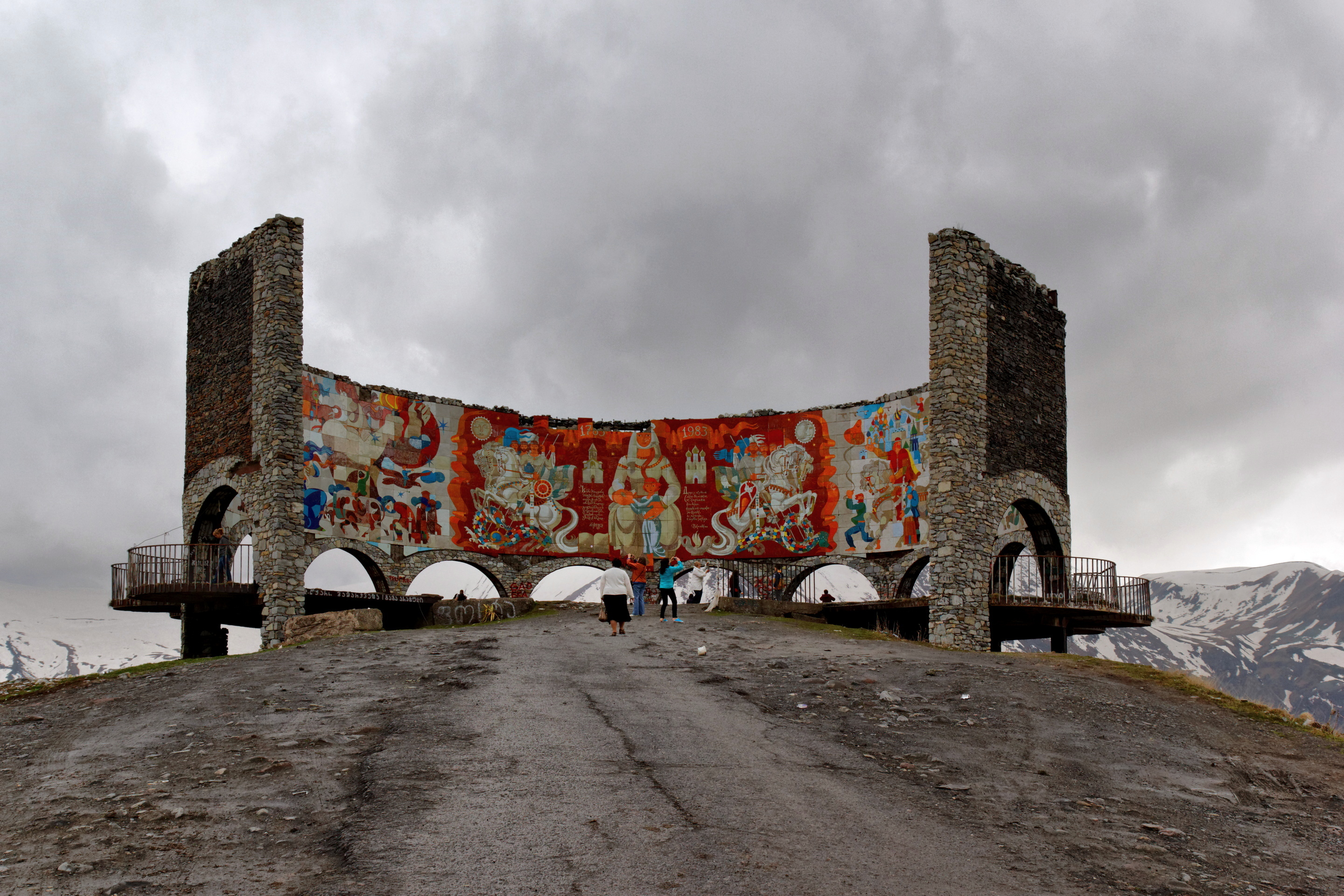 Russia-Georgia Friendship Monument on the Georgian Military Road